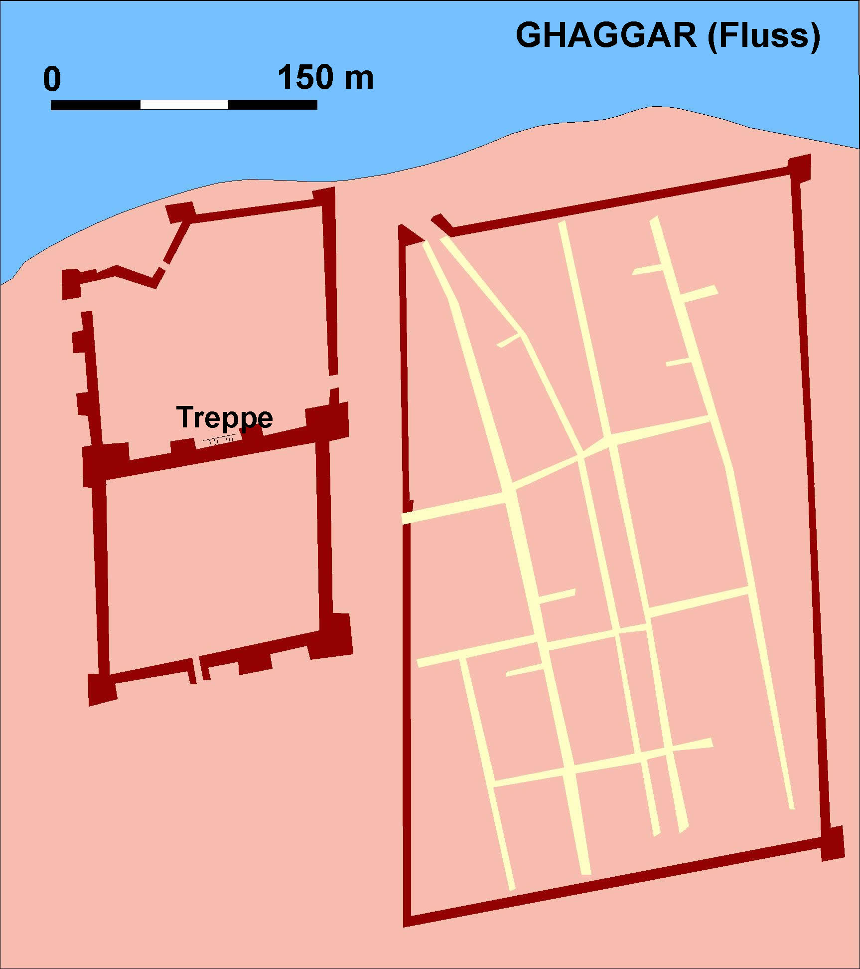 Map of ancient city of Kalibangan, Indus Valley Civilization